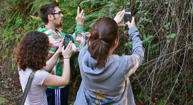 Using the iNaturalist app in the field